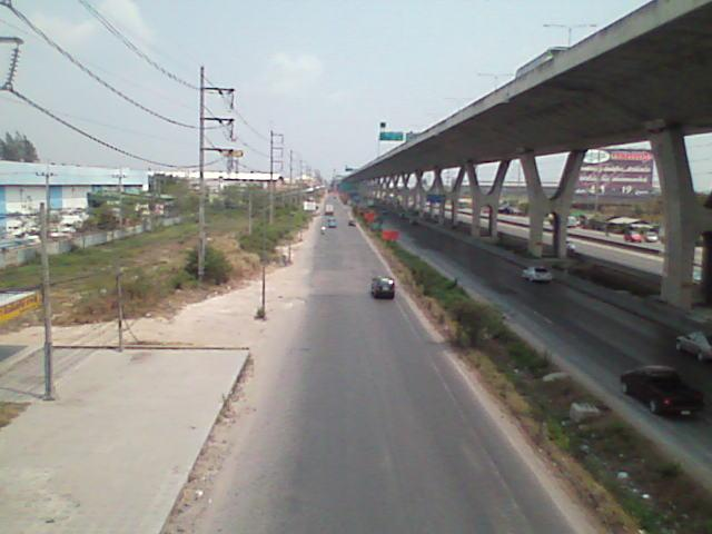 Bangna-bangpakong road (Thailand)